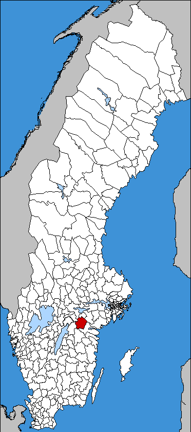 Finspång Municipality in Sweden